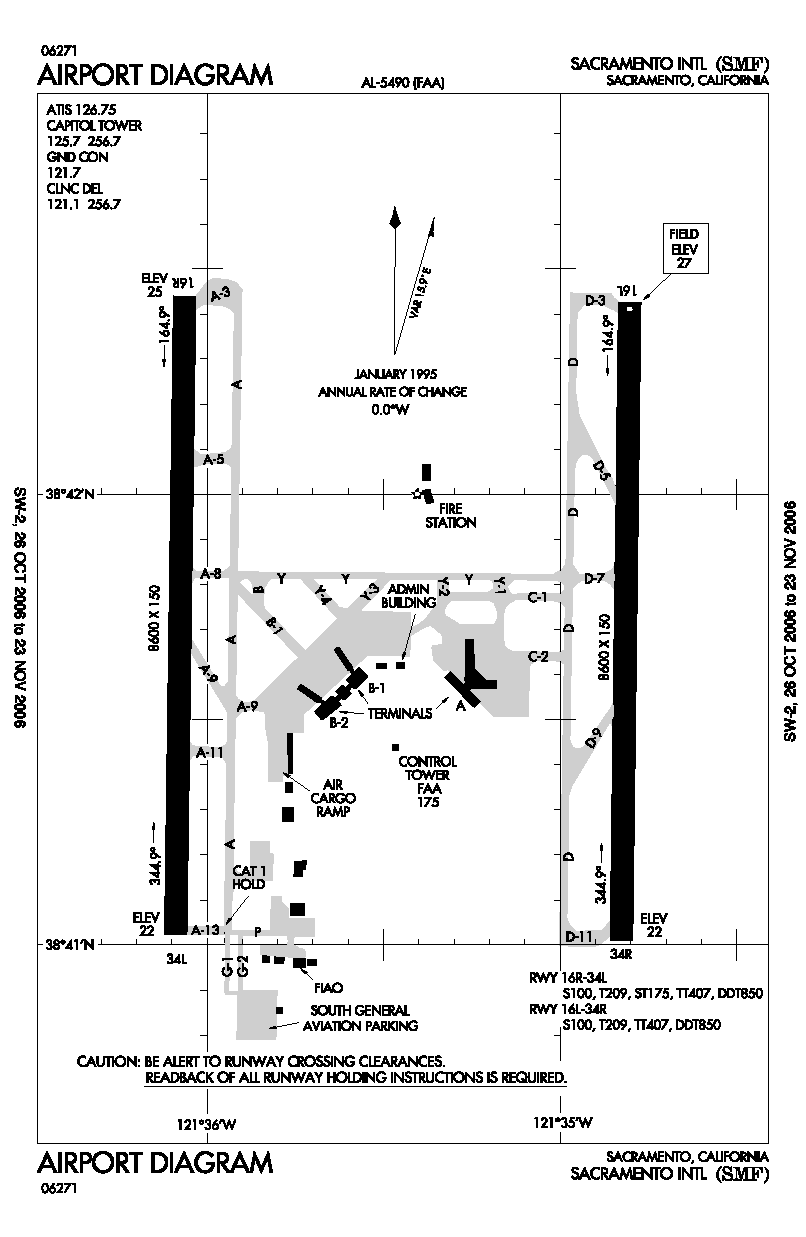 FAA airport diagram for SMF (Sacramento International Airport) in California, United States.